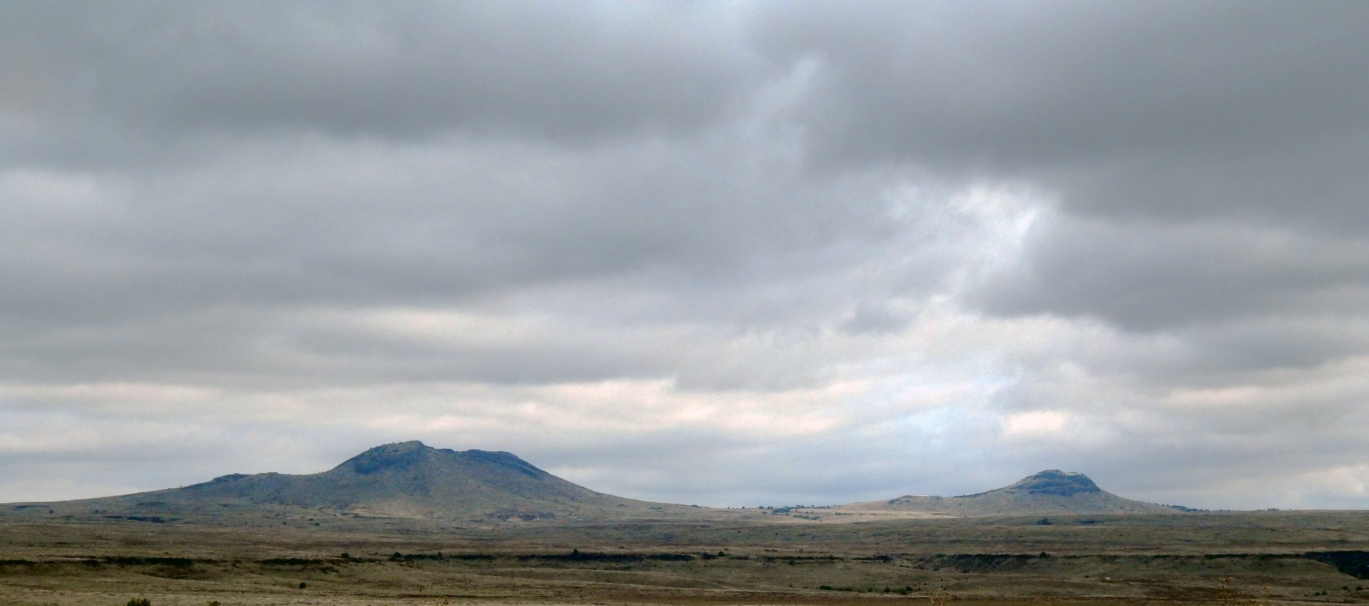 Shot from Lake Road, New Mexico 370 - original image has power lines, which I removed in Photoshop CS6.